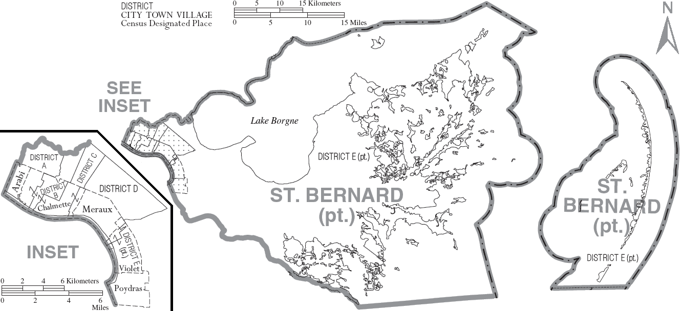 Map of St. Bernard Parish, Louisiana, United States with municipal and district boundaries